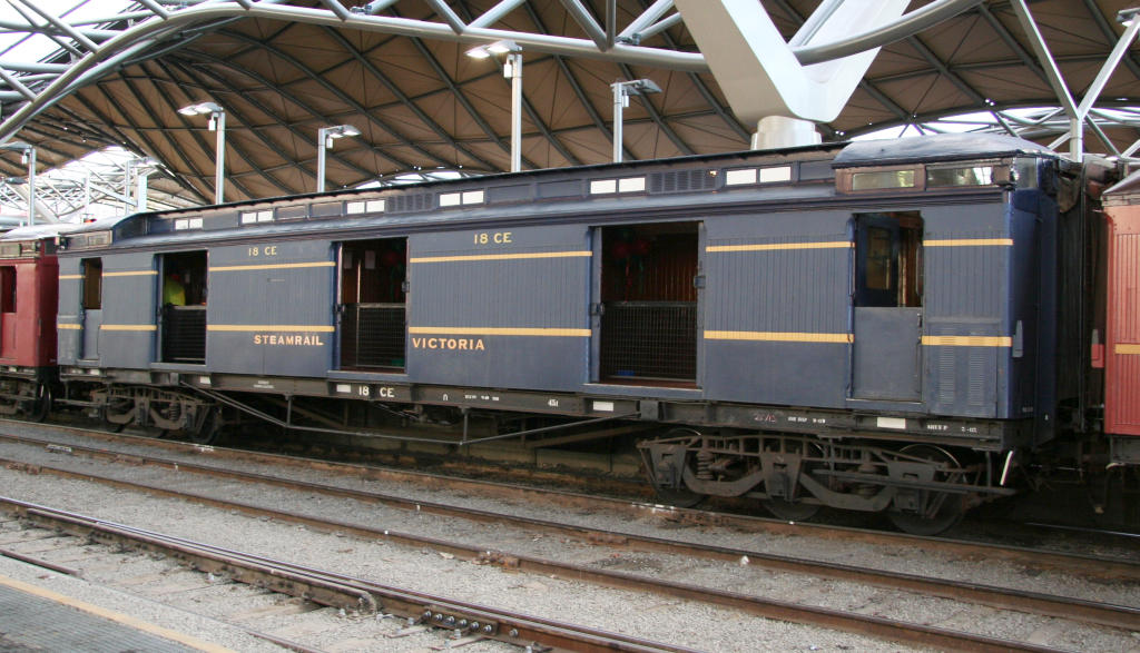 Clerestory roofed Victorian Railways E type carriage 18CE as preserved by Steamrail Victoria